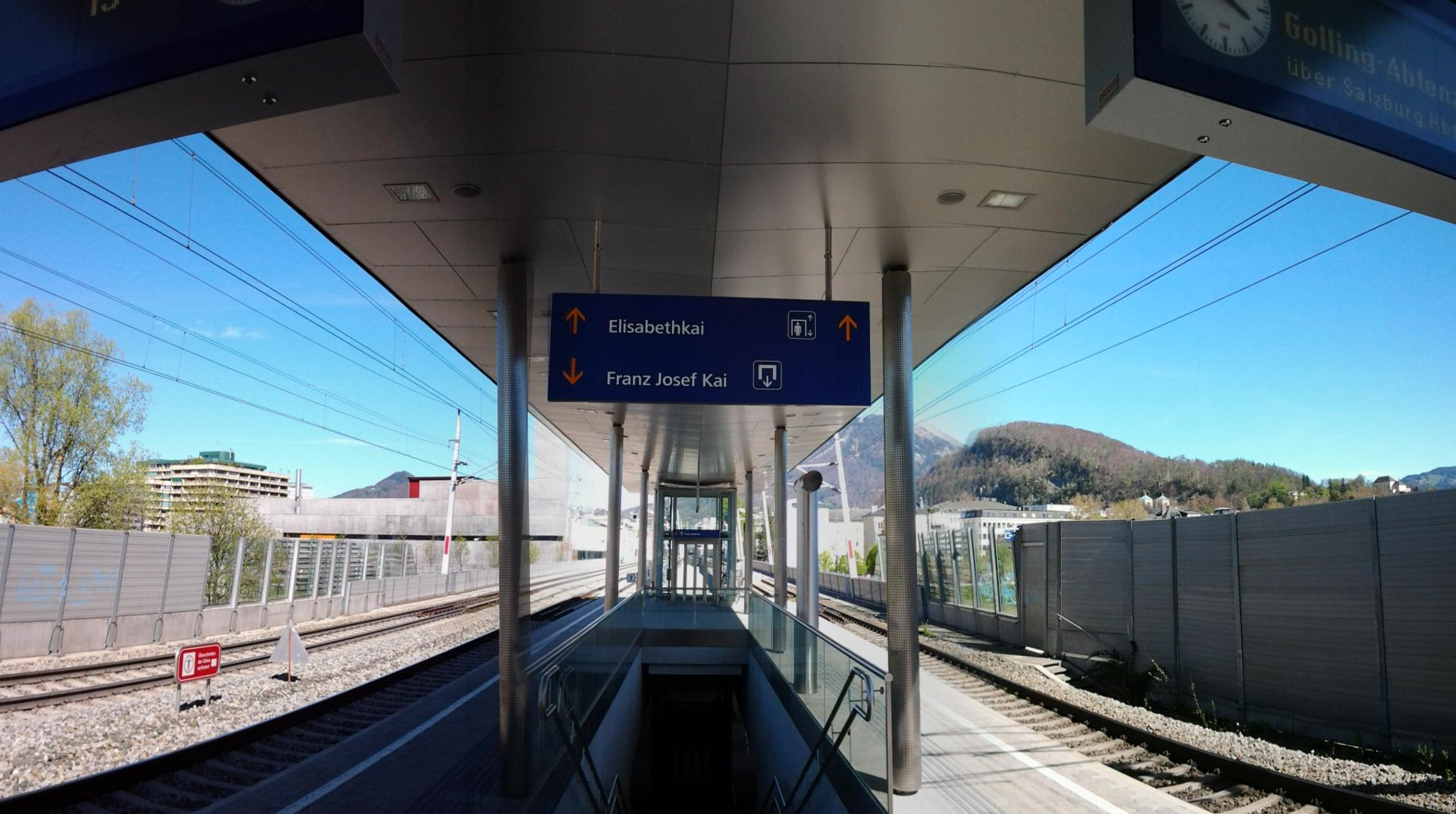 railway station Salzburg Mülln, Salzburg, Austria